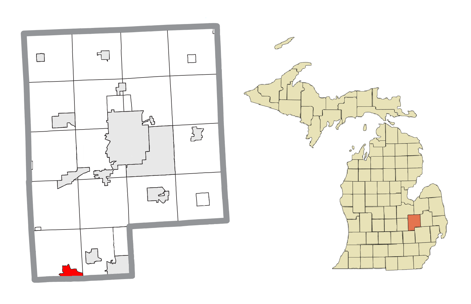 Argentine, MI